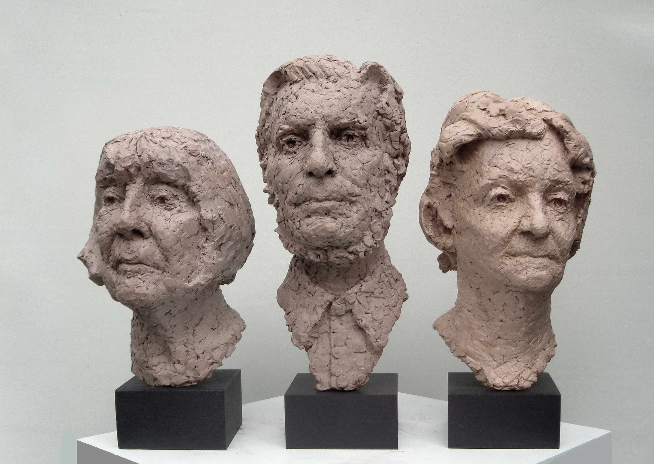 Compton Triptych (Terracotta) original artwork (2011) by Jon Edgar linking to sitters from Compton parish, Surrey and first released on public display at University of Surrey November-December 2011. Approval emailed by artist for Creative Commons Attribution-Sharealike 3.0 Unported License, to be emailed to